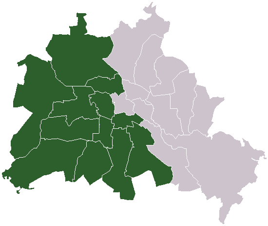 Berlin, Germany – divided – Berlin (West), blank (for e.g. location maps and other uses) For district names